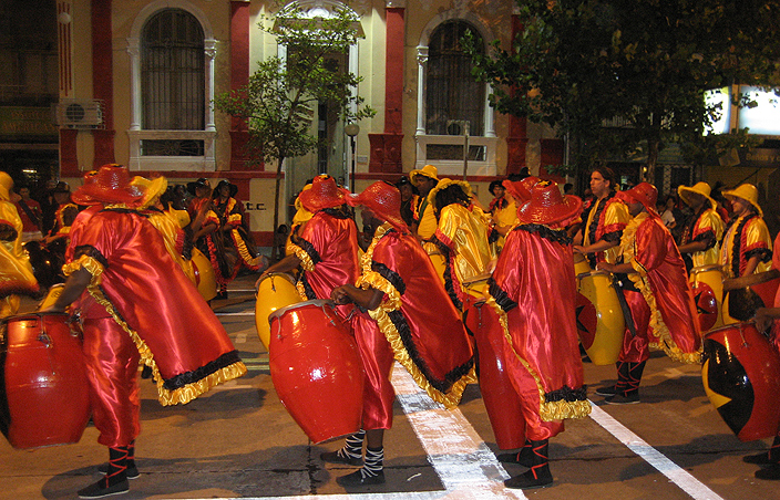 Candombe being played on the streets of its origins, Montevideo Uruguay.